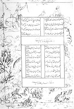 Paper of Diwan of Sultan Ahmed Djalairid